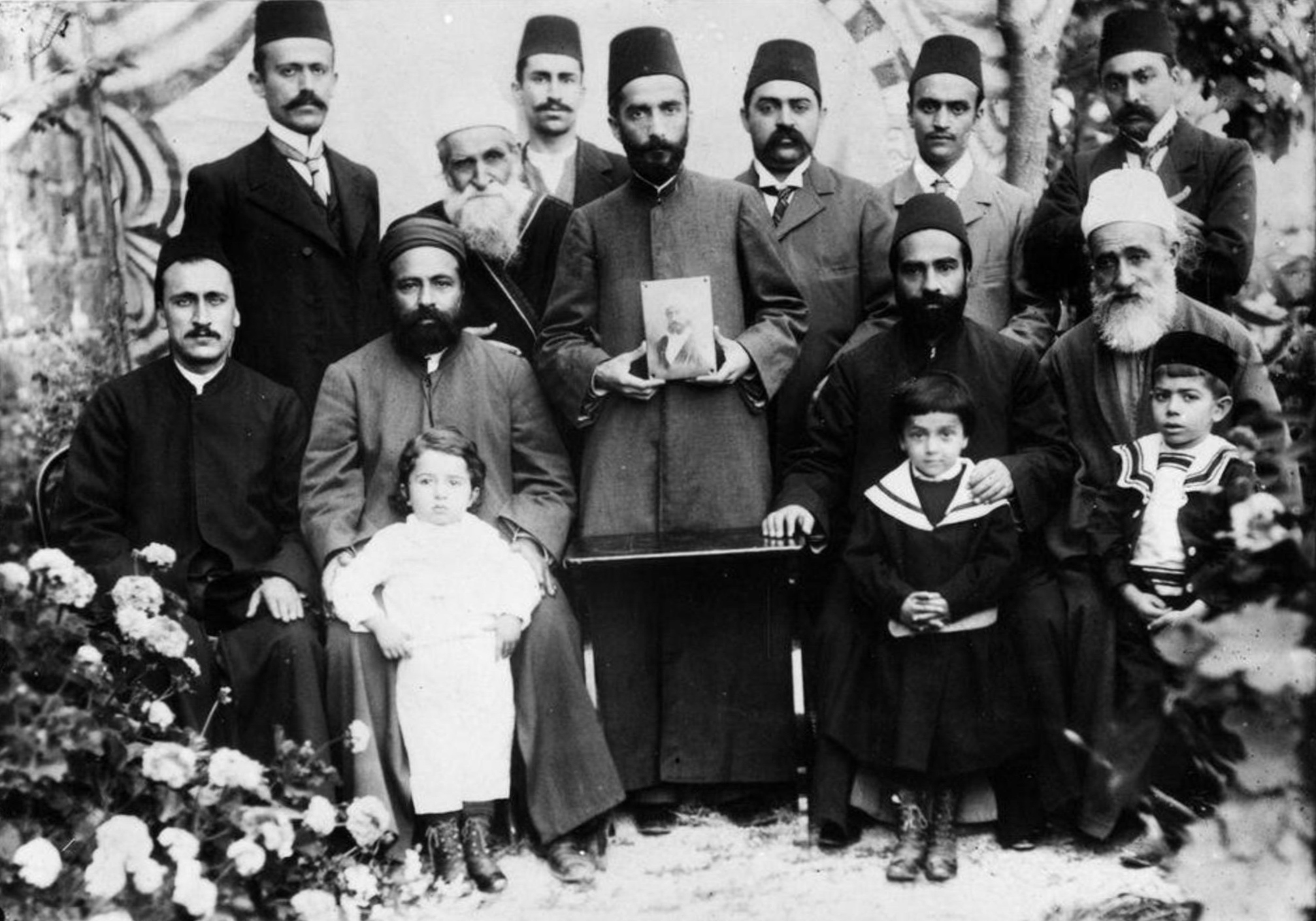 From left to right: Standing: Dr. Youness Afroukhteh, Zaynu’lMuqarrabin, his son Munir Zayn, Mirza Badi’u’llah, holding the photograph of the Master. Seated: Mirza Hadi Shirazi Afnan, father of Shoghi Effendi, Mirza Muhsin Afnan - another son-in-law of Abdul-Baha. Kids: Shoghi Effendi (in the middle)